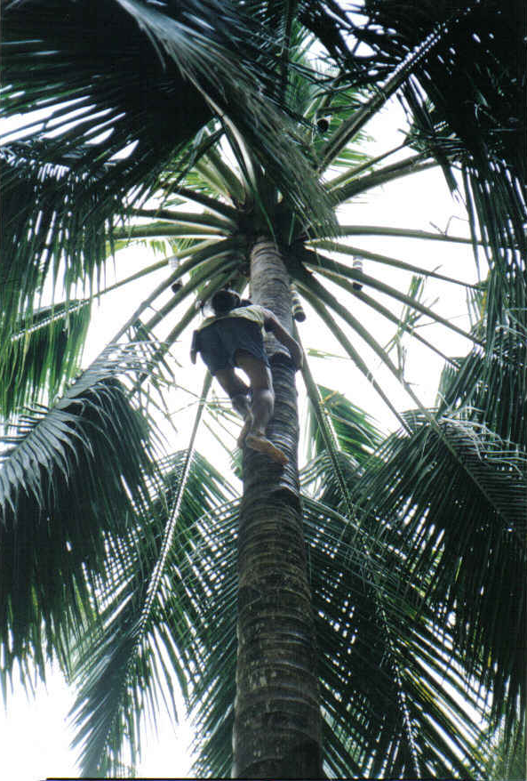 A toddy tapper (known in Philippines as Manangite) in a coconut palm, Cocos nucifera.